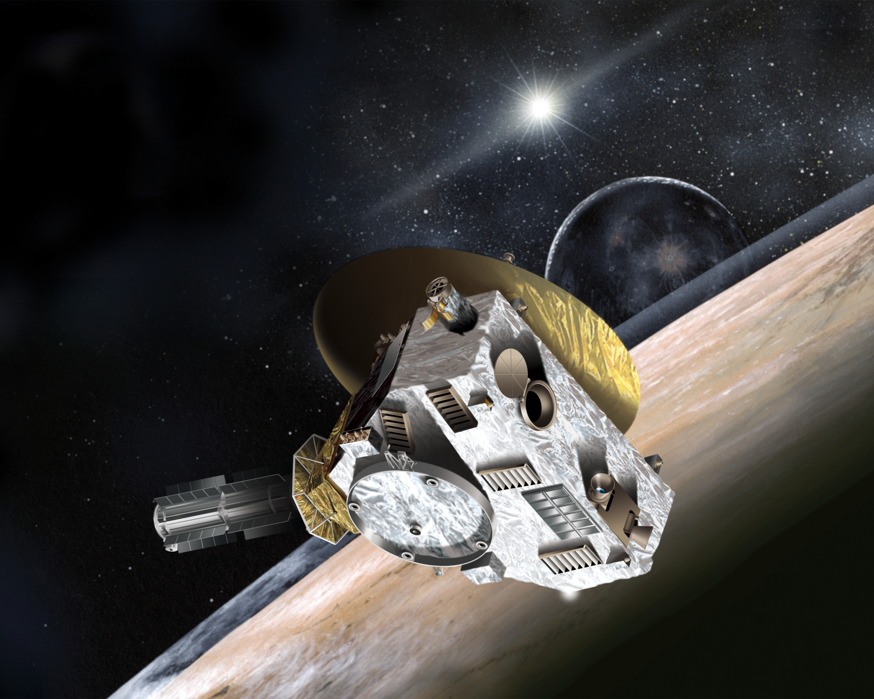 Artist's concept of the New Horizons spacecraft during its planned encounter with Pluto and its moon, Charon. The craft's miniature cameras, radio science experiment, ultraviolet and infrared spectrometers and space plasma experiments would characterize the global geology and geomorphology of Pluto and Charon, map their surface compositions and temperatures, and examine Pluto's atmosphere in detail. The spacecraft's most prominent design feature is a nearly 7-foot (2.1-meter) dish antenna, through which it would communicate with Earth from as far as 4.7 billion miles (7.5 billion kilometers) away.